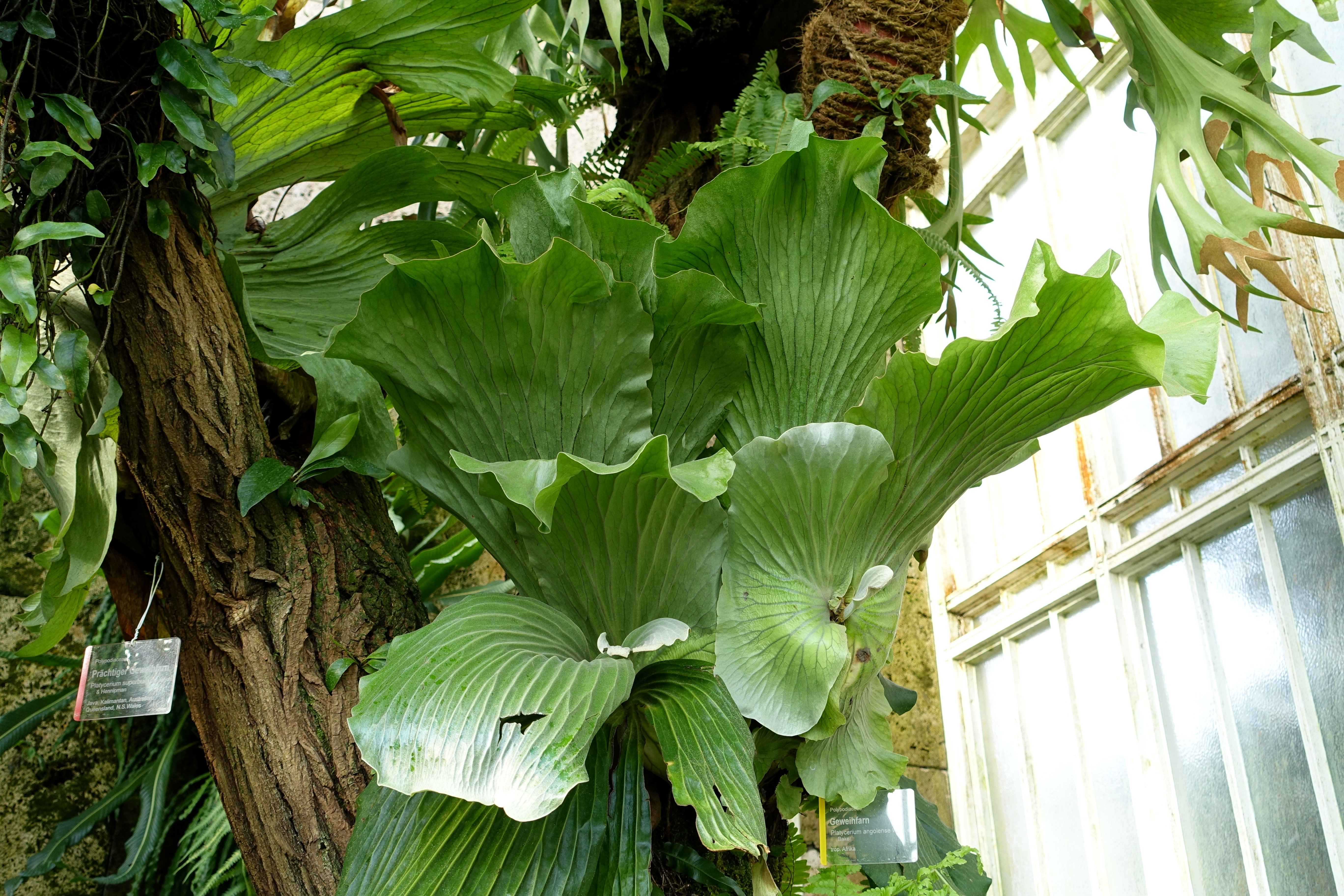 Botanical specimen in Wilhelma Zoo - Stuttgart, Germany.